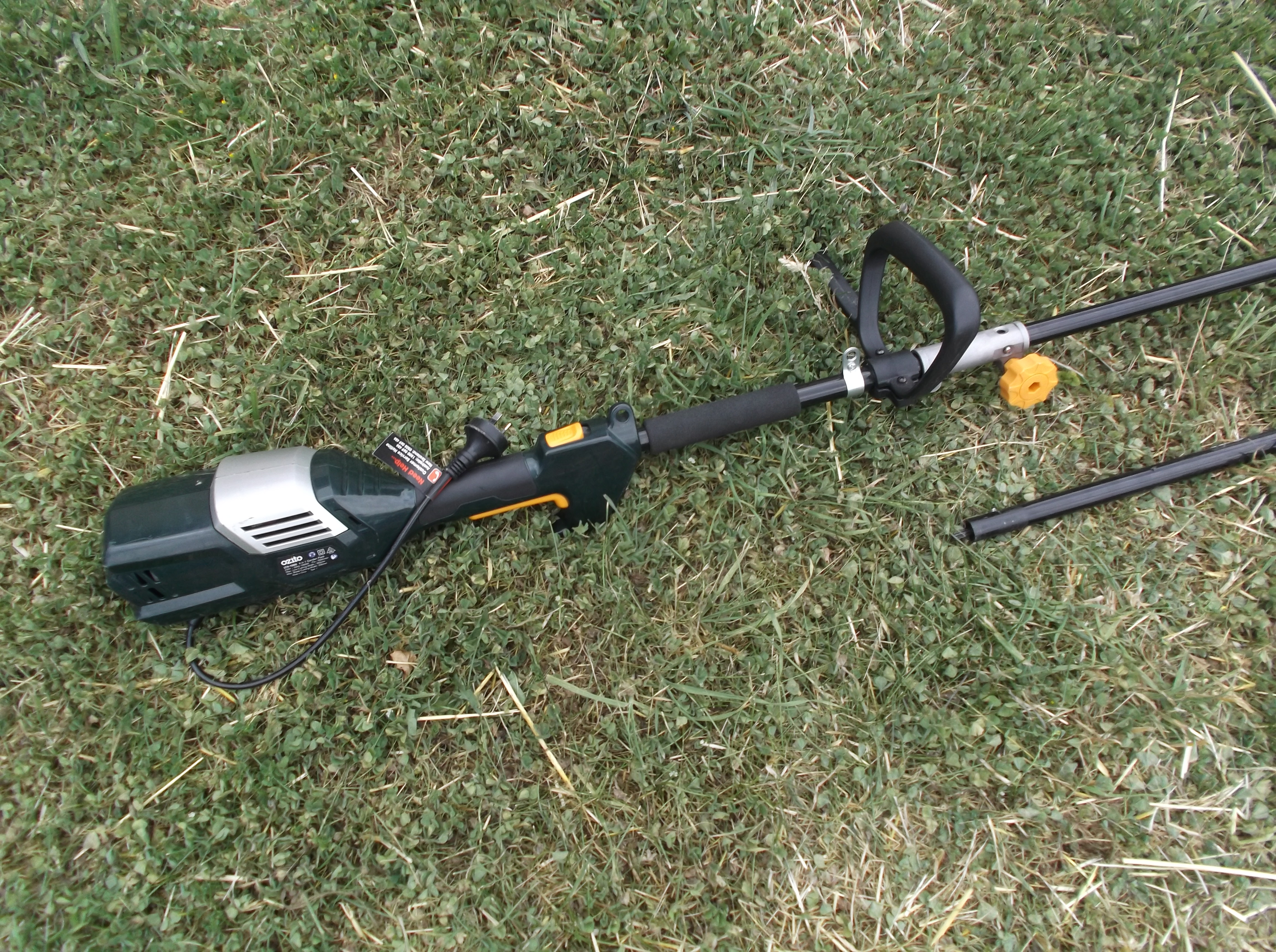 The power unit of my 240V mains powered split shaft brushcutter